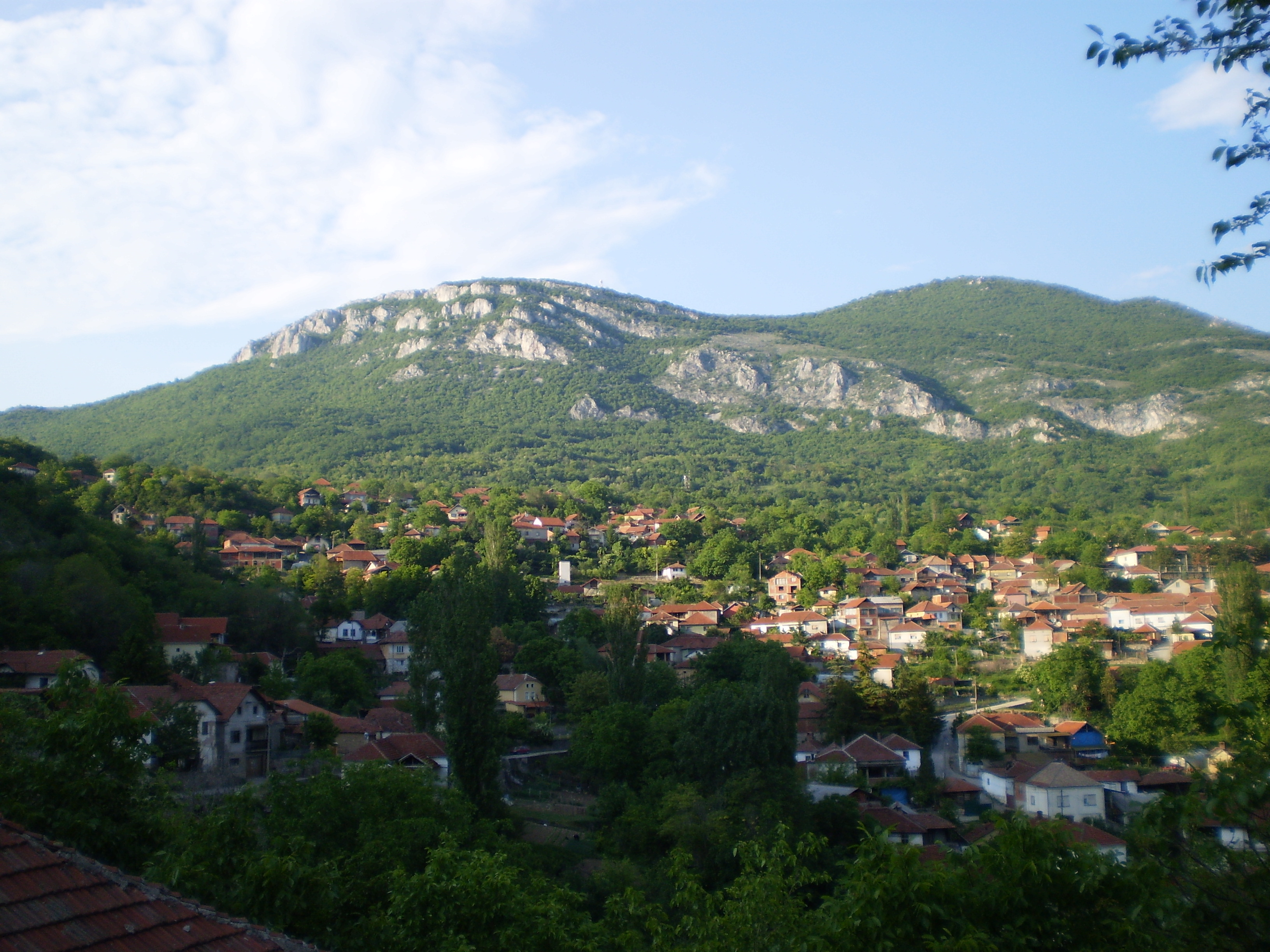 Sicevo 2012.